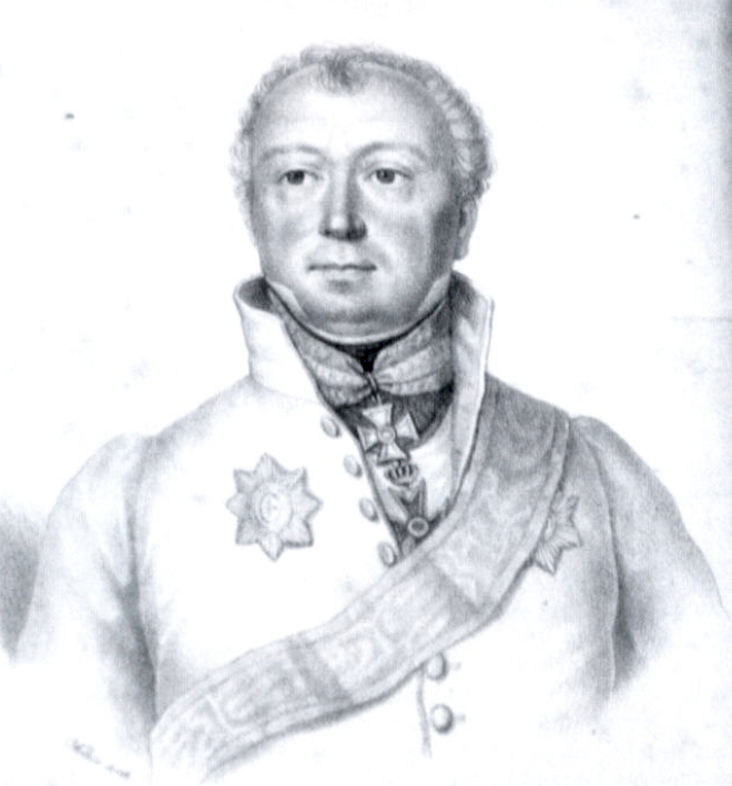 Genral Maximilian, Freiherr von Wimpffen (1770-1854), Austrian Baron and General of the Napoleonic Wars noted for his work in the Austrian Army General Staff.